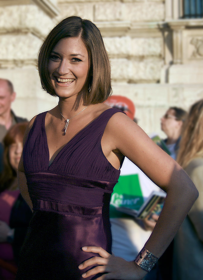 Presenter Sandra Thier at the Romy TV awards (Hofburg Imperial Palace in Vienna)